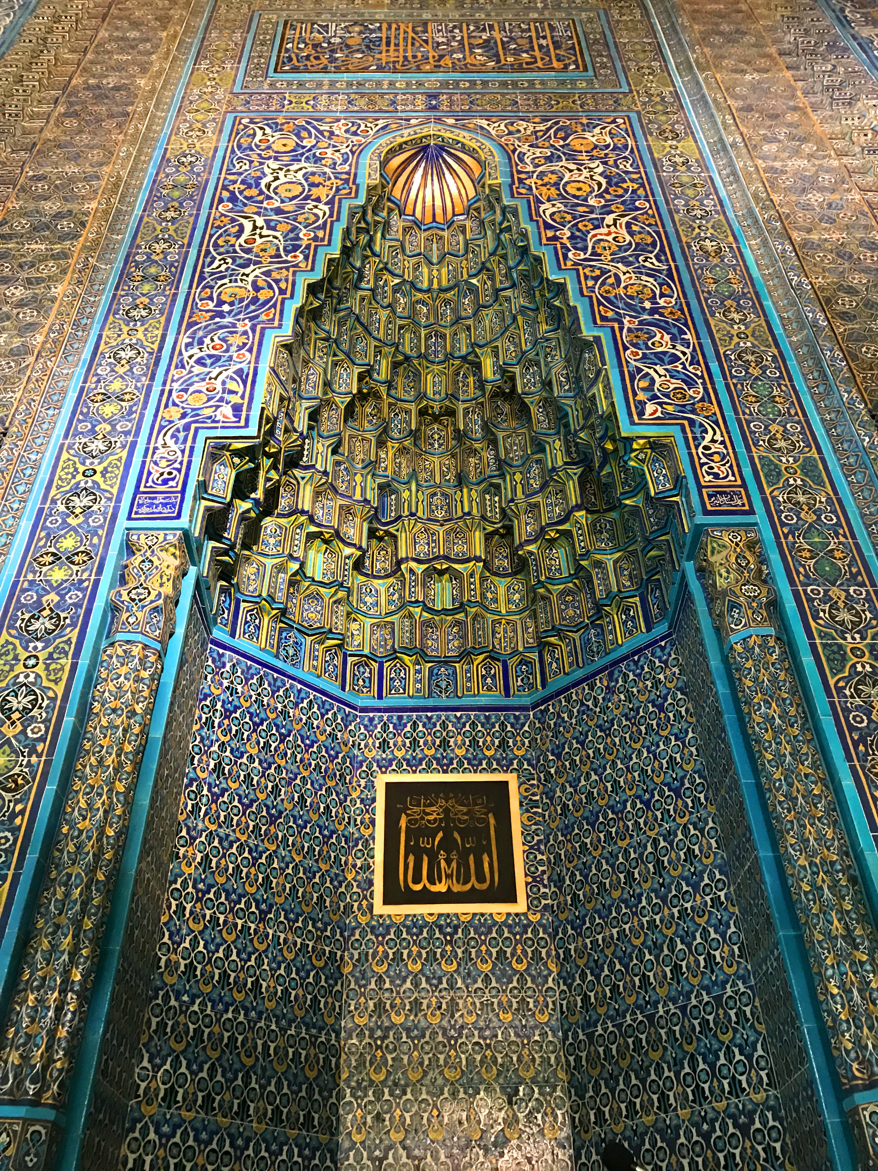 Green Mosque of Bursa, Turkey, 2017. Green Mosque (Turkish: Yeşil Camii, "Yeşil Mosque"), also known as Mosque of Sultan Mehmed I, is a part of the larger complex (a külliye) located on the east side of Bursa, Turkey, the former capital of the Ottoman Turks before they captured Constantinople in 1453. The complex consists of a mosque, türbe, madrasah, kitchen and bath.